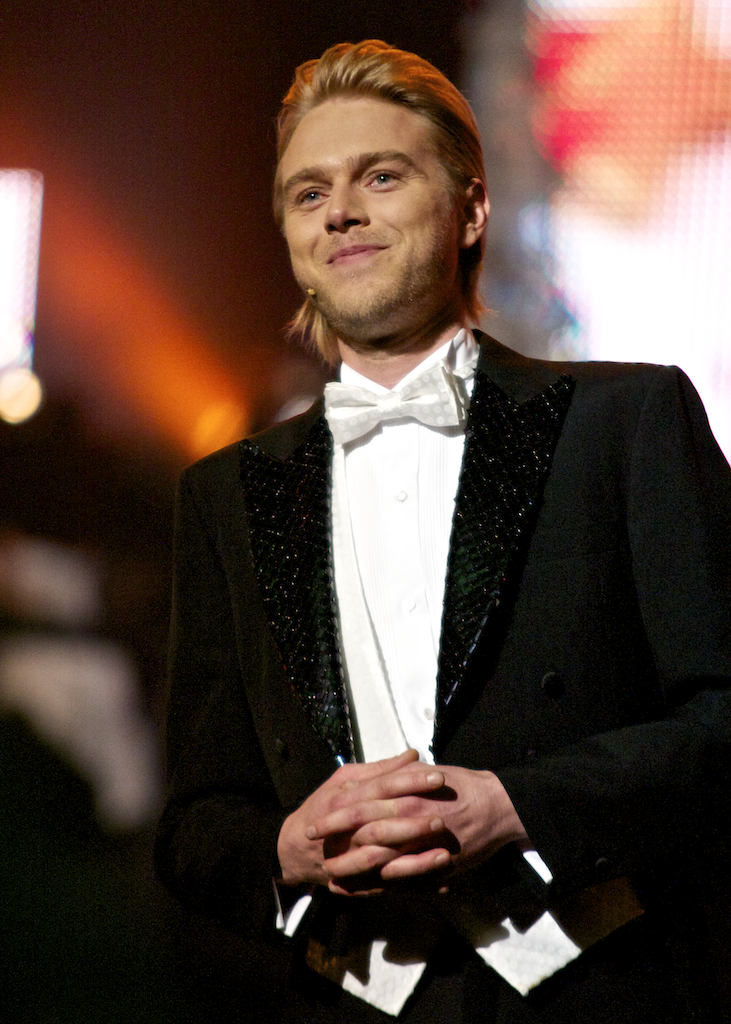 Danish tv-host Felix Smith, at "DR's Store Juleshow" in 2009.